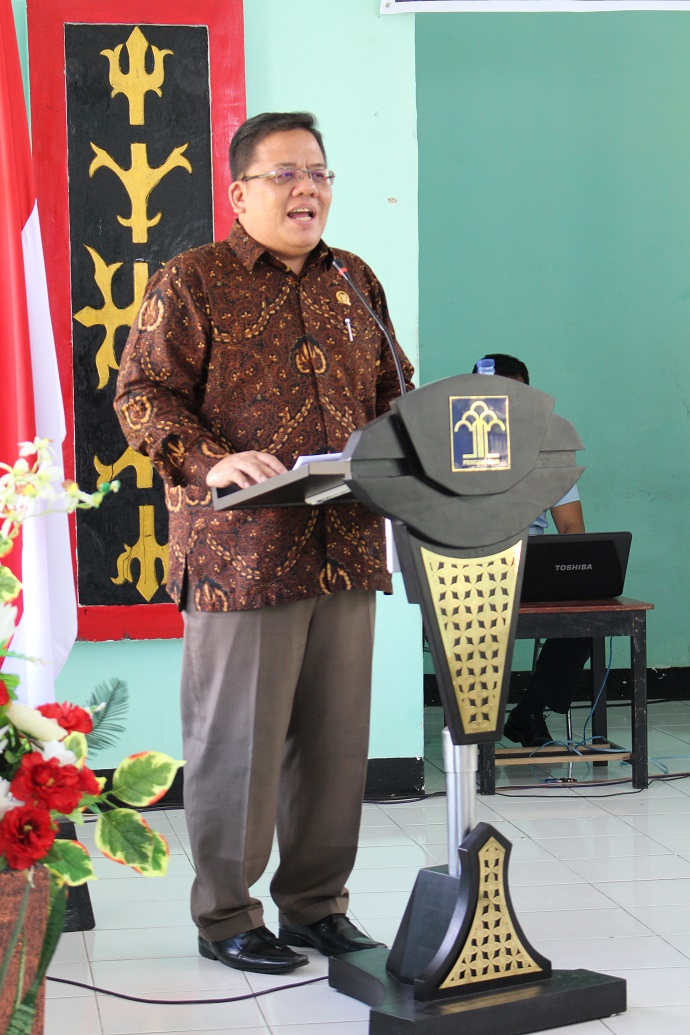 Ambon - Member of the Ombudsman of the Republic of Indonesia, Adrianus Meliala attended a thanksgiving and hospitality event to commemorate the 53rd Penitentiary Day (HBP) of the Regional Office (Kanwil) of the Maluku Ministry of Law and Human Rights (Kemenkumham) which took place at the Ambon Class II Penitentiary Day. (Thursday, 4/27).